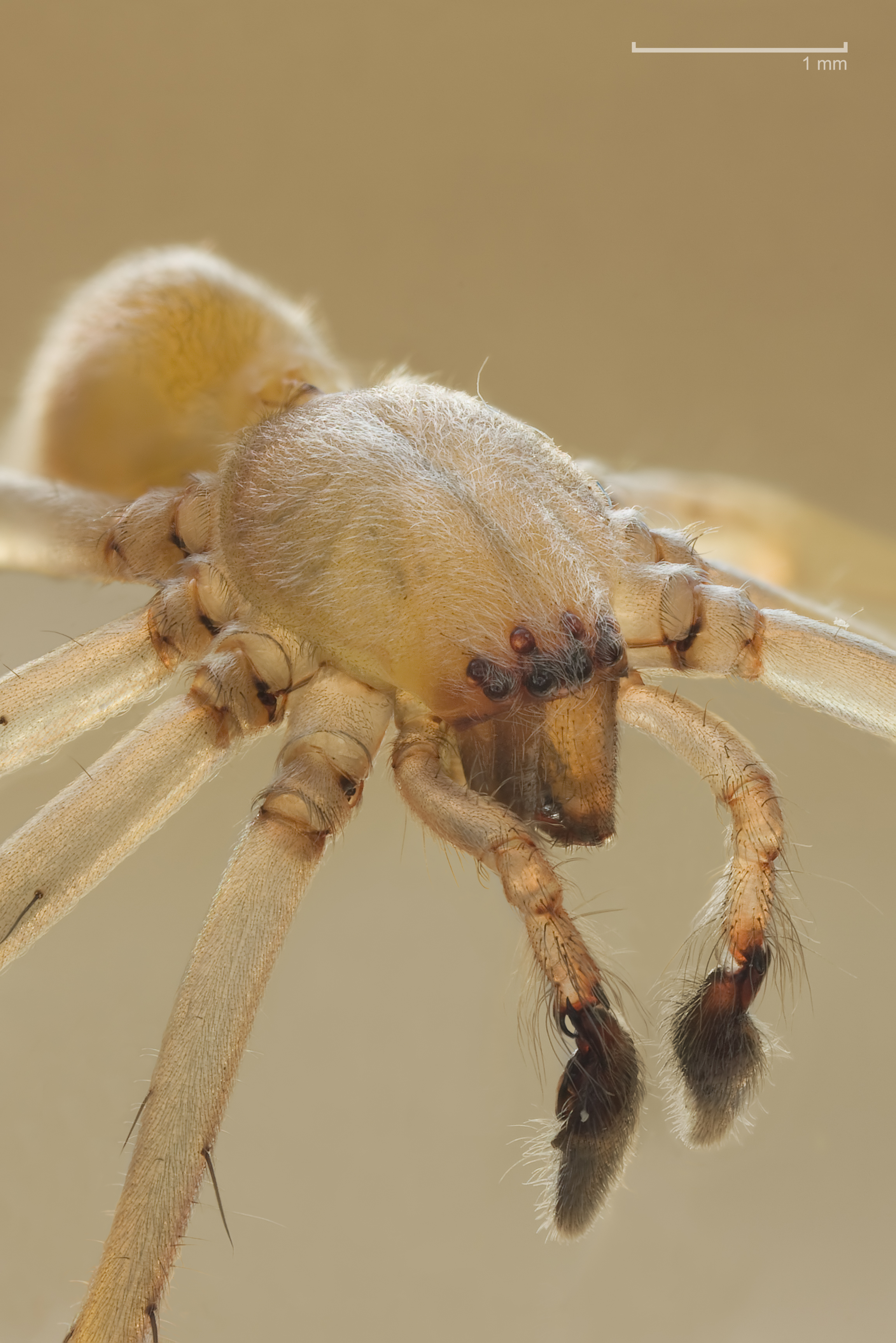 Cheiracanthium is a genus of spiders in the Miturgidae family.